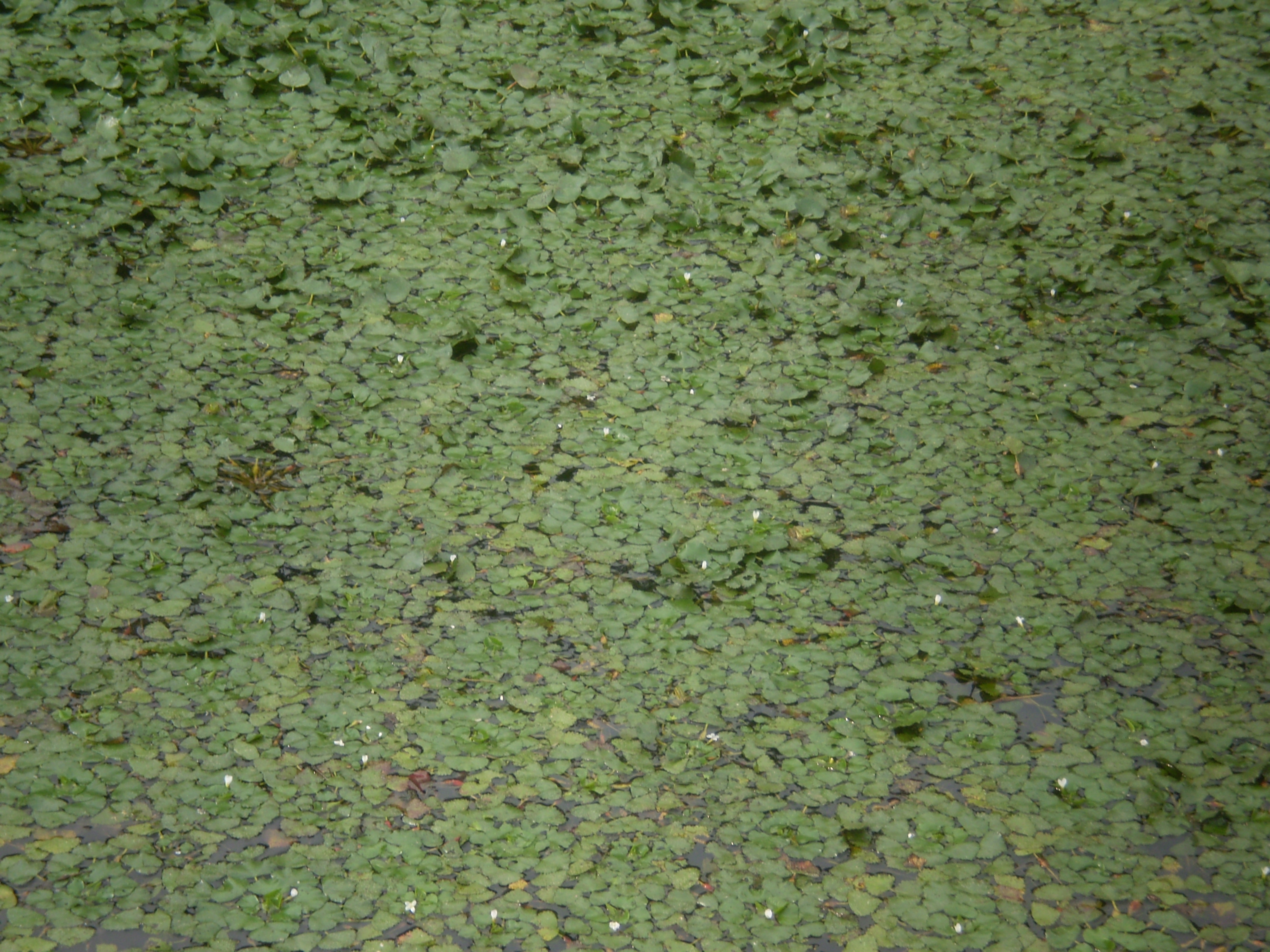 Trapa japonica(Hishi)